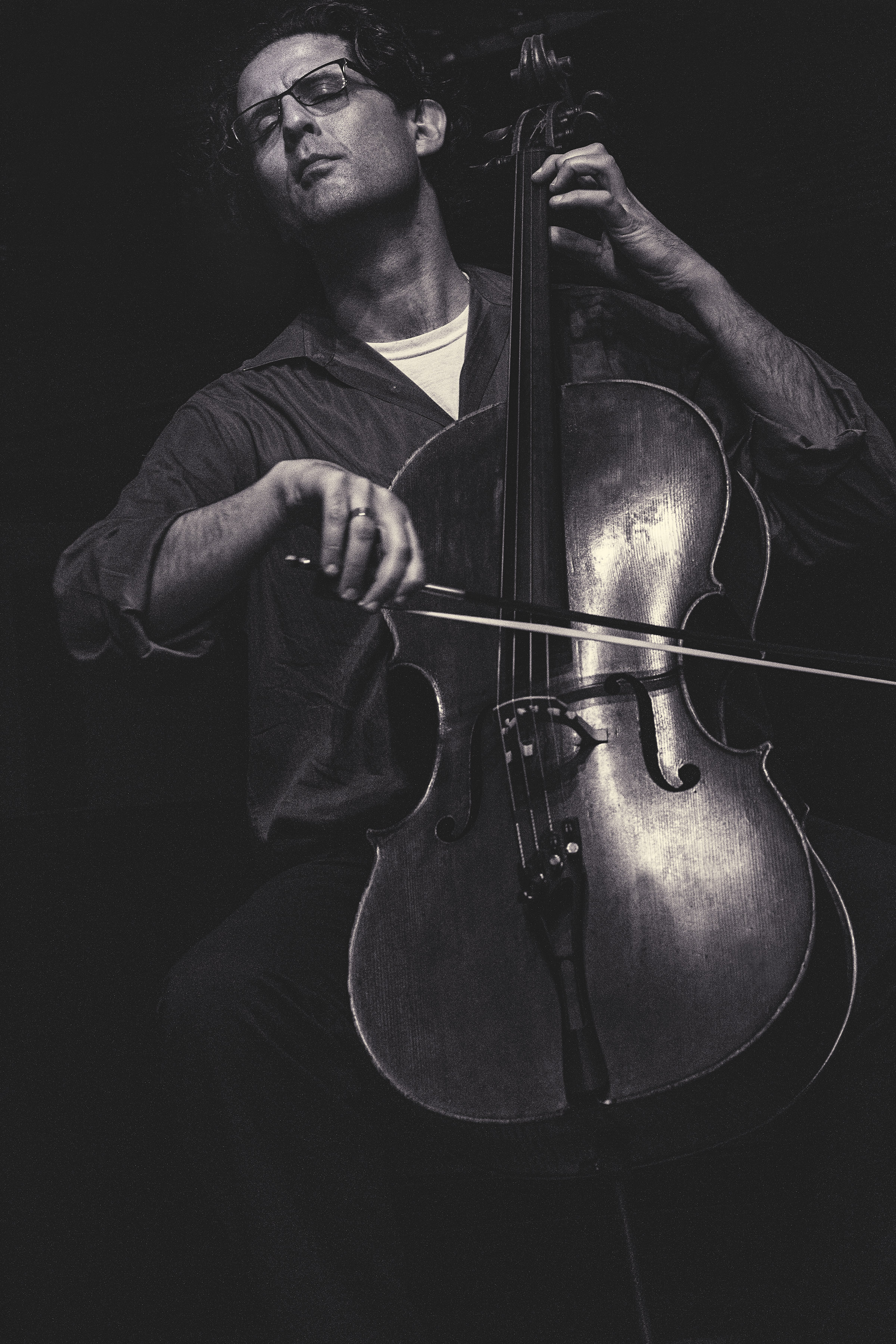 Cellist and cello professor Amit Peled